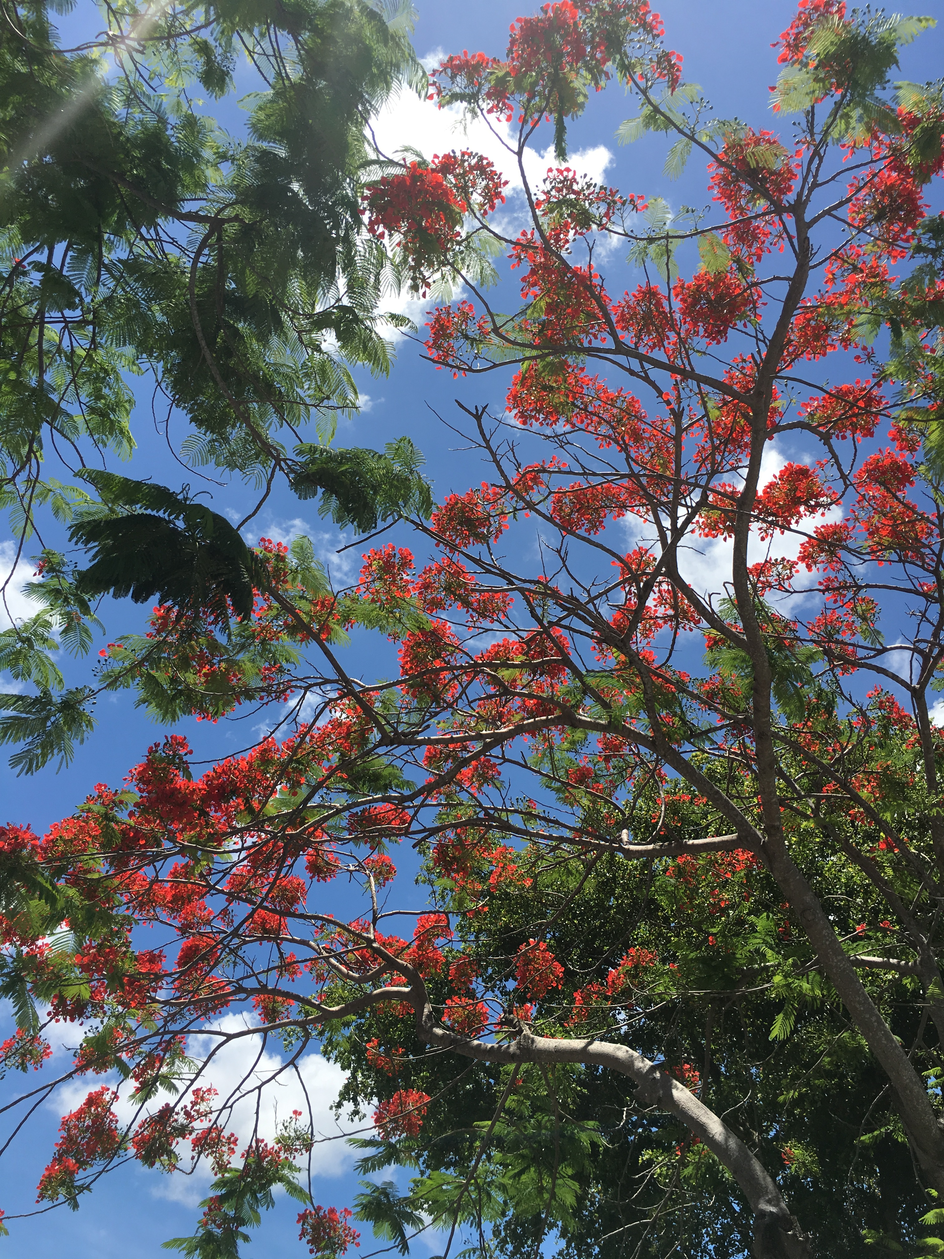 A flowering Delonix regia canopy located in Pembroke Pines, Florida